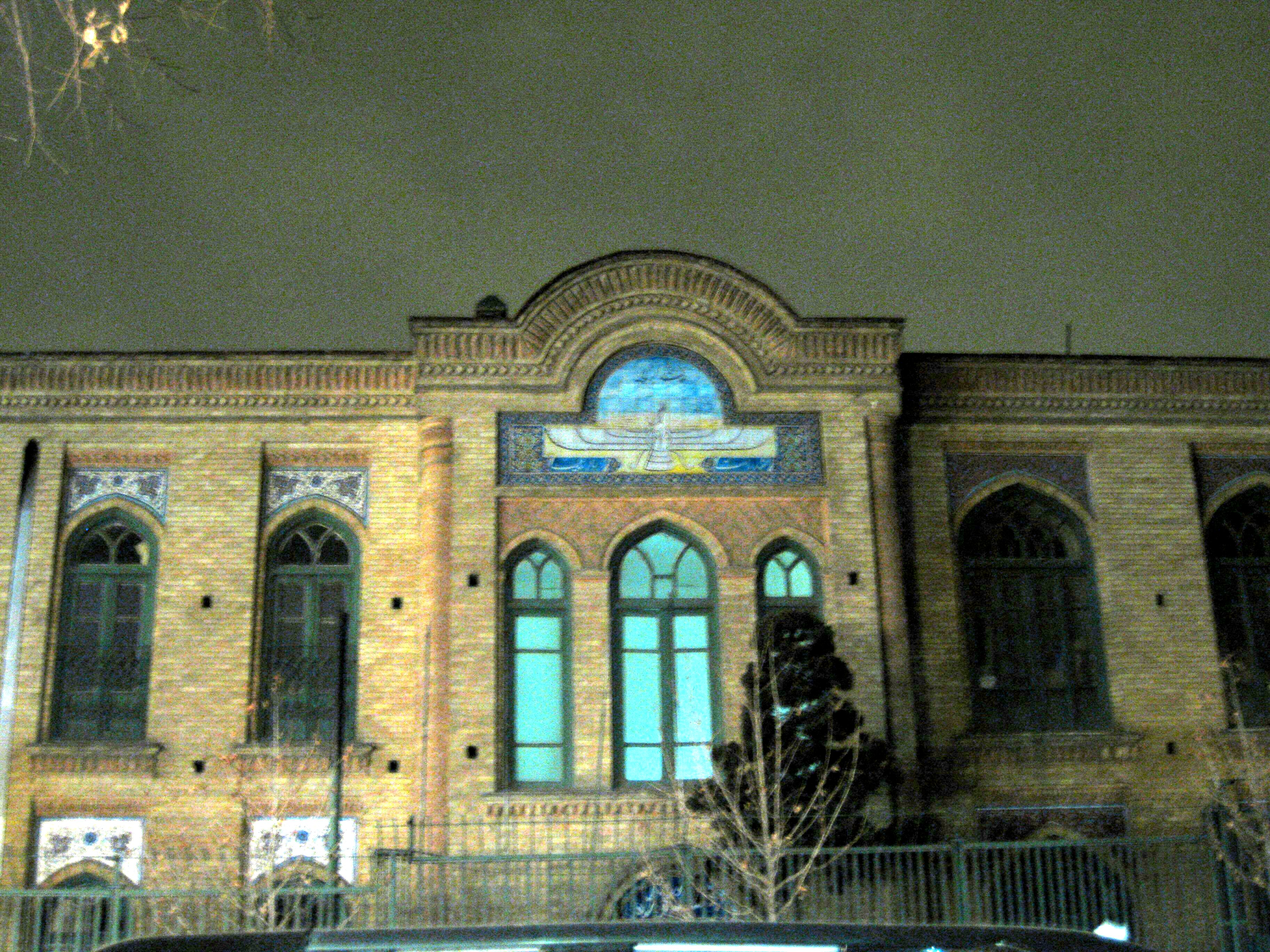 Firuz Bahram Zoroastrian school - Tehran